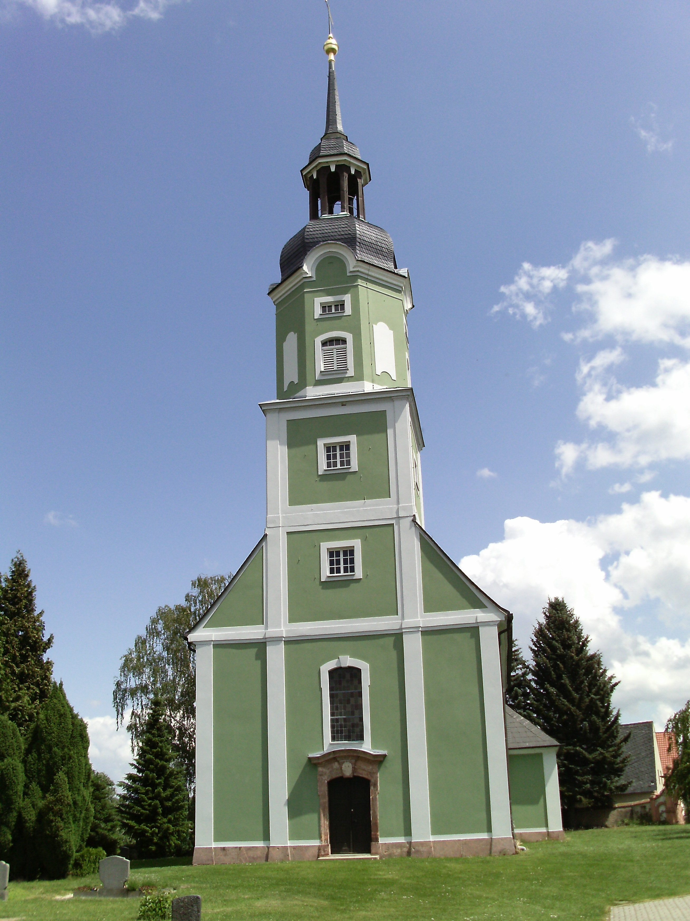 Elbisbach church (Frohburg, Leipzig district, Saxony)